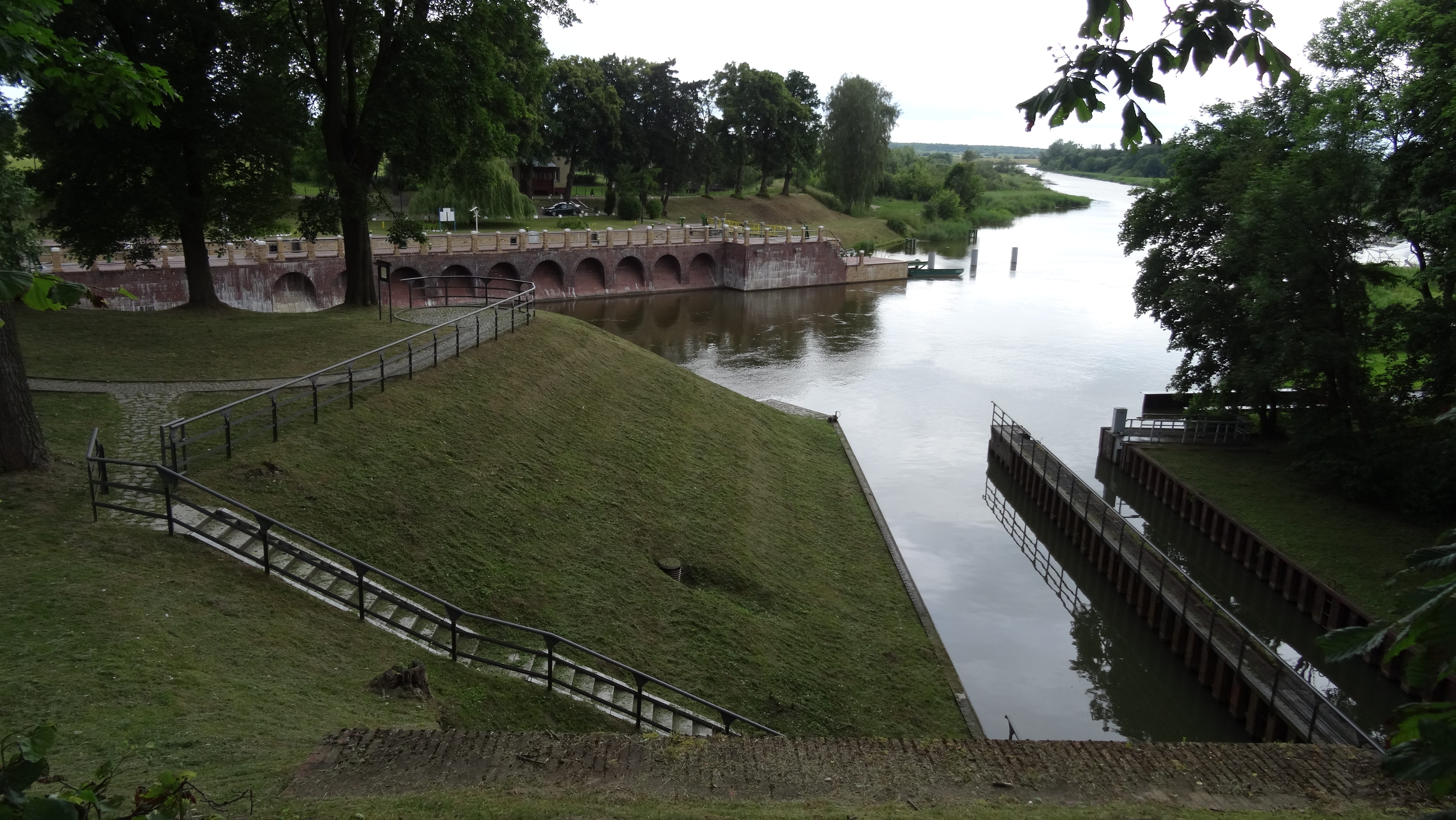 Biala Gora water gate, Poland